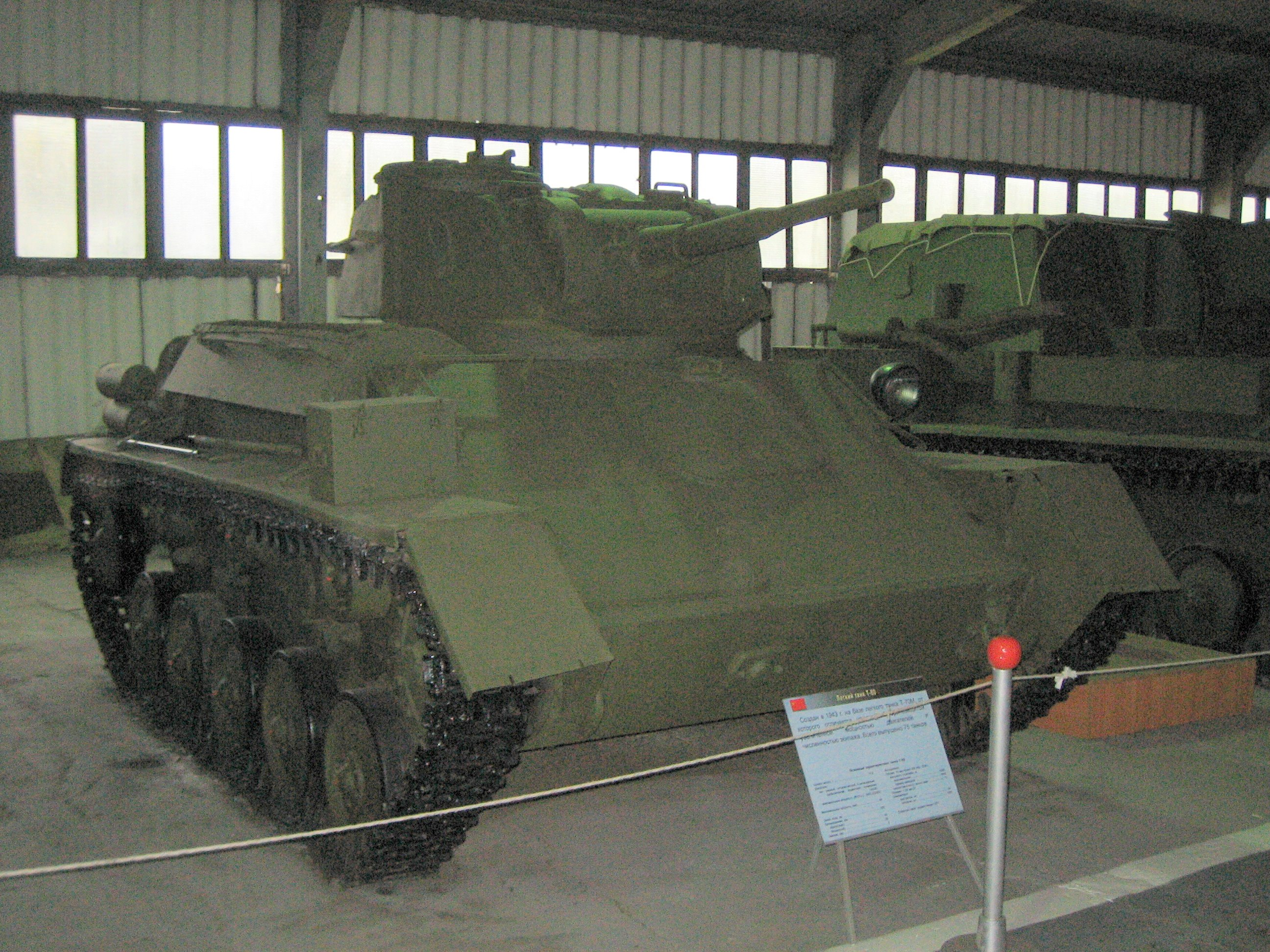 Soviet light infantry tank T-80, displayed in Kubinka Tank Museum. Photo taken on September 9, 2007. Source: Photo by me, User:Saiga20K.